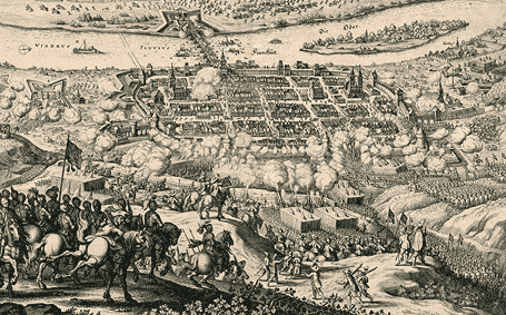 Storming of Frankfurt (Oder) by the Swedes during the Thirty Years' War